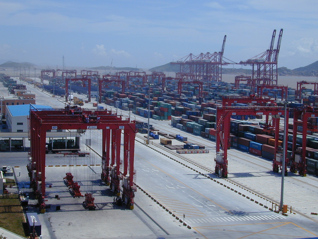 Yangshan Deep-water Harbour Zone, Port of Shanghai.